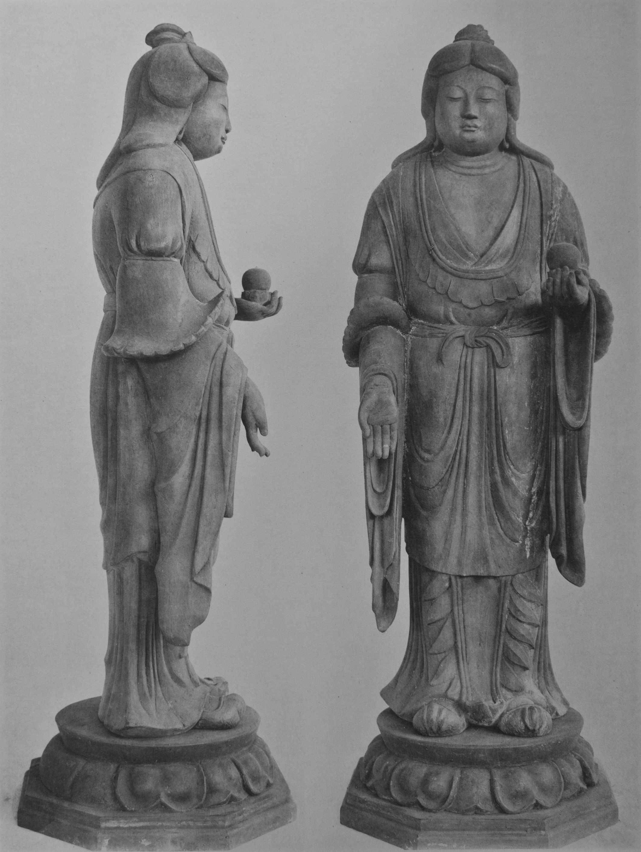 Kuramadera, Kyoto, Japan